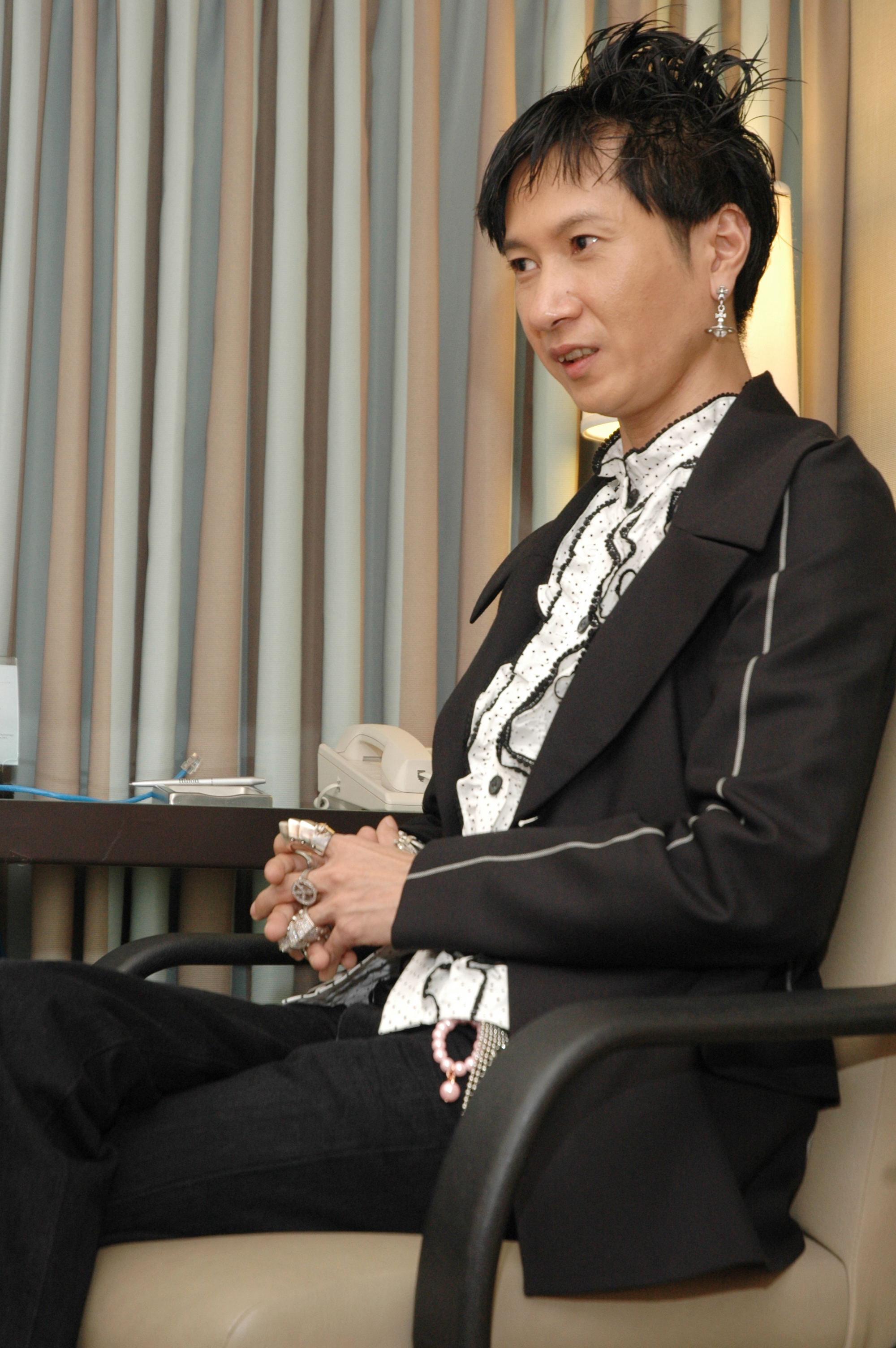 J!-ENT interviews Novala Takemoto. Photo by Nergene Arquelada.